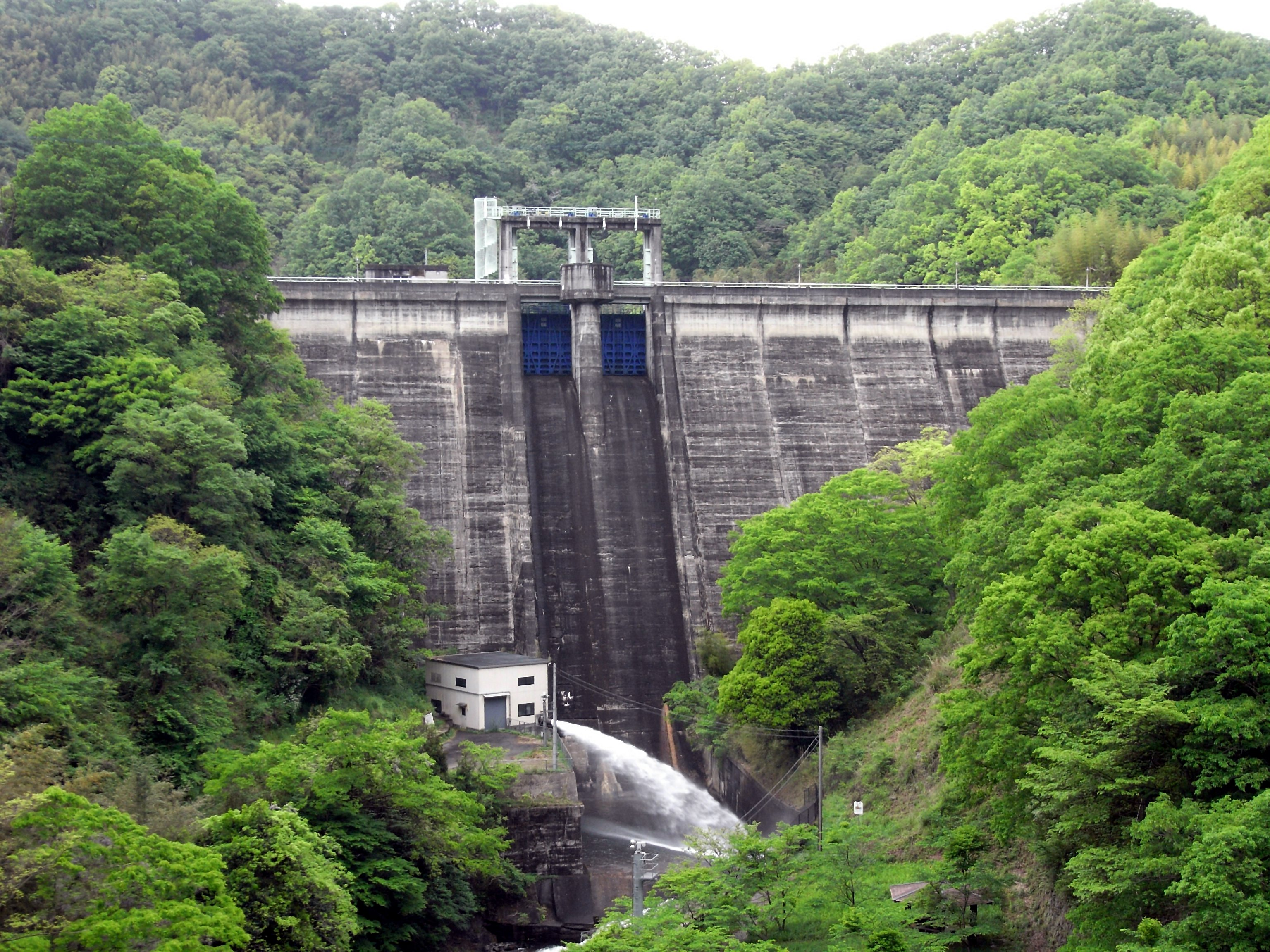 Naiba Dam(Naibagawa river/Kagawa Pref./Japan)